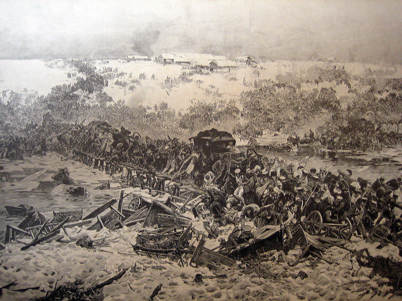 Retreat of Napoleon's Army through Beresina in 1812.